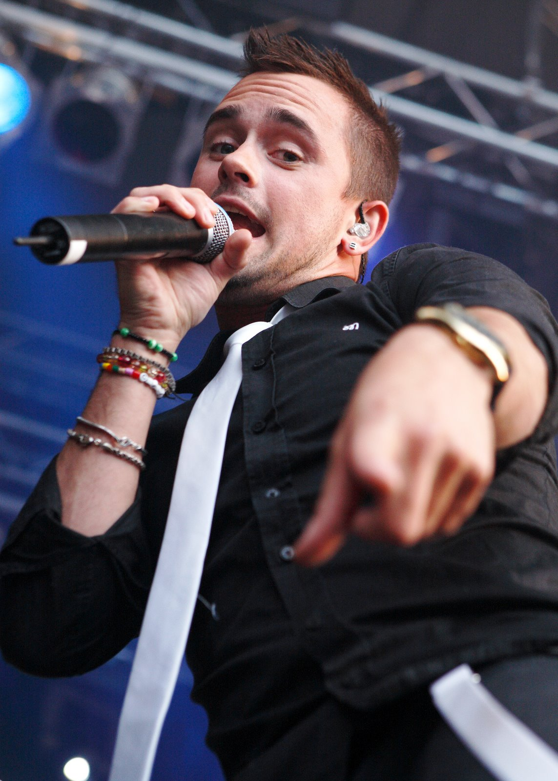 band, concert